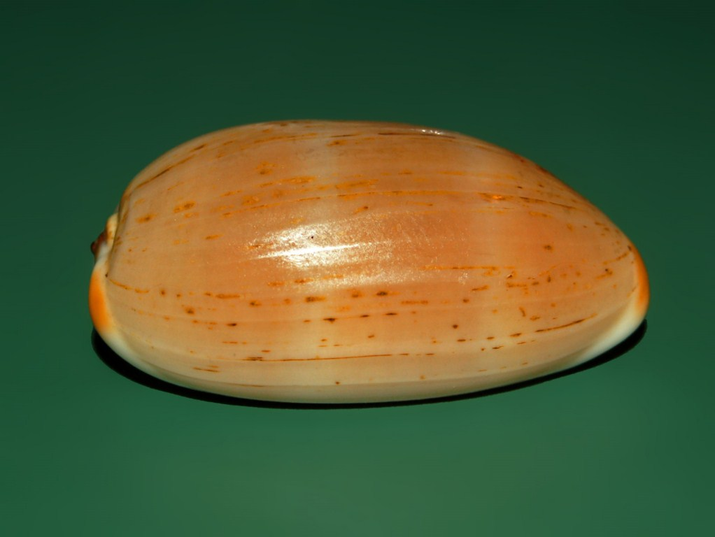 Luria isabella - Philippines